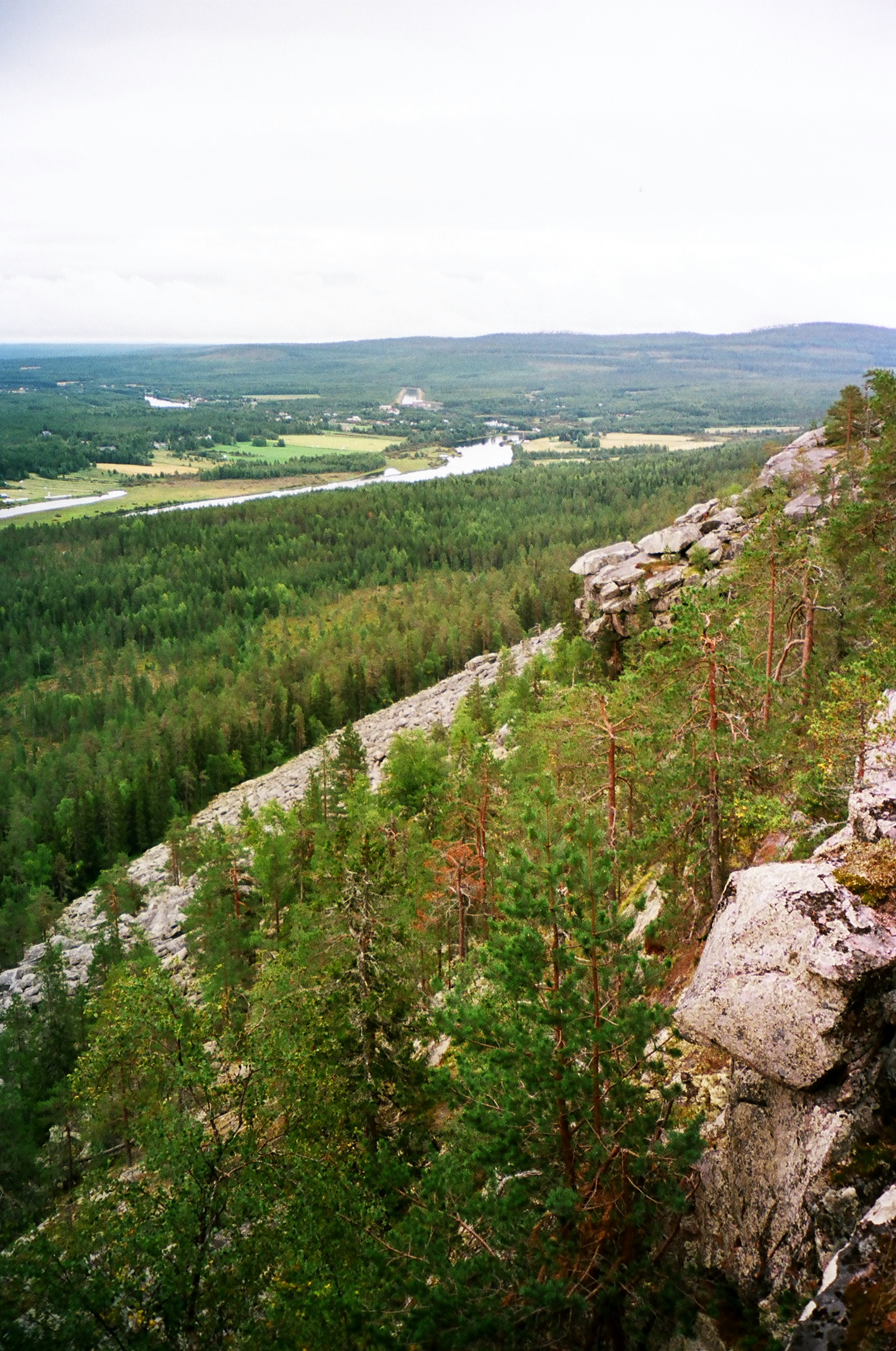 View towards the southeast from the top of Aavasaksa hill in Finnish Lapland. On the foreground, the cliffs around the summit are visible, while the river Tengeliö and the village of Tengeliö are visible a few kilometers away.